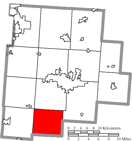 Map of the municipal and township boundaries of Fairfield County, Ohio, United States, as of the 2000 census, with the location of Madison Township highlighted. Township borders are shown only in unincorporated areas in order to differentiate incorporated and unincorporated areas more clearly.